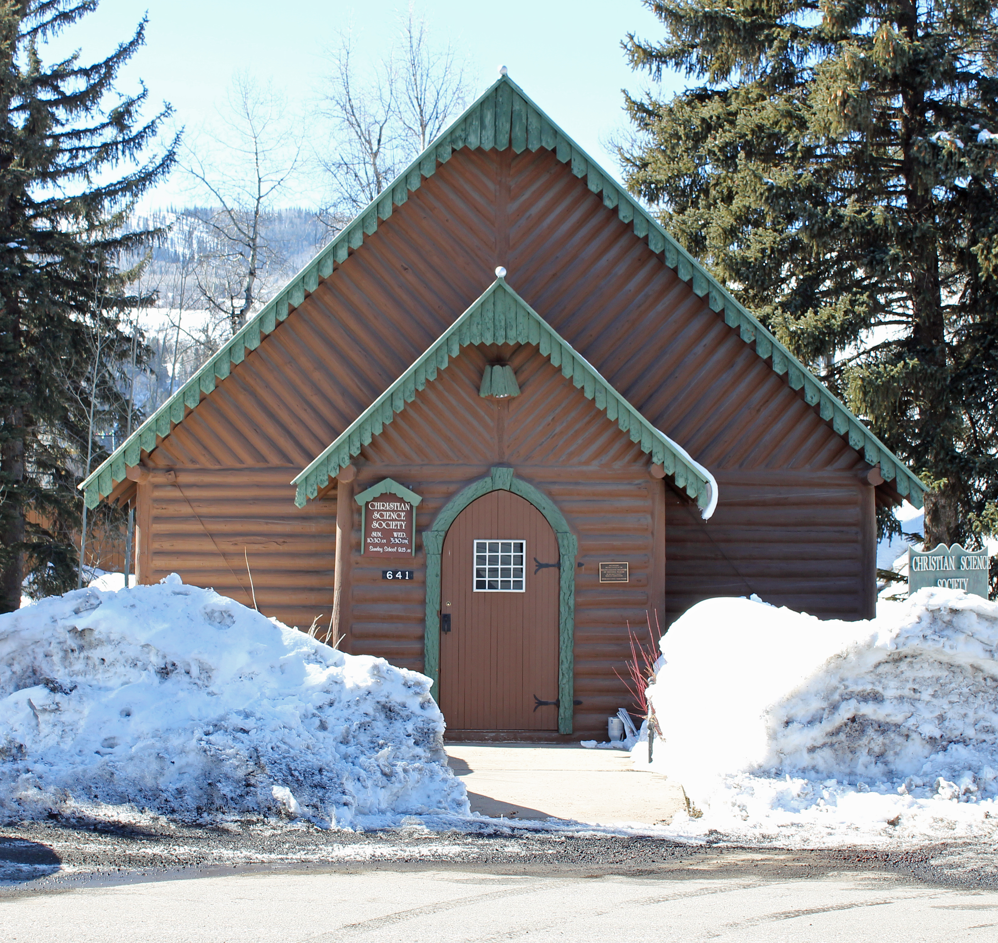 The Christian Science Society Building, located at 641 Oak Street in Steamboat Springs, Colorado. The building is listed on the National Register of Historic Places.